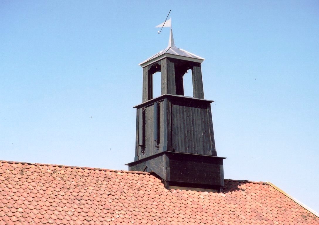 Camouflaged mobile base station at belfry of Larvik Golf Course, Larvik (Vestfold, Norway)